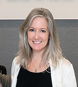 Photograph of Mary Kearney.